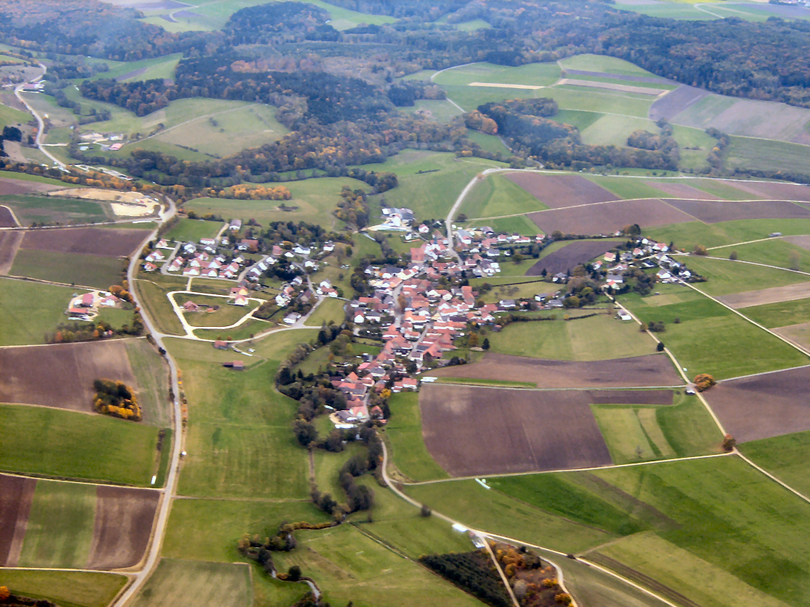 Aerial photograph of Gansheim